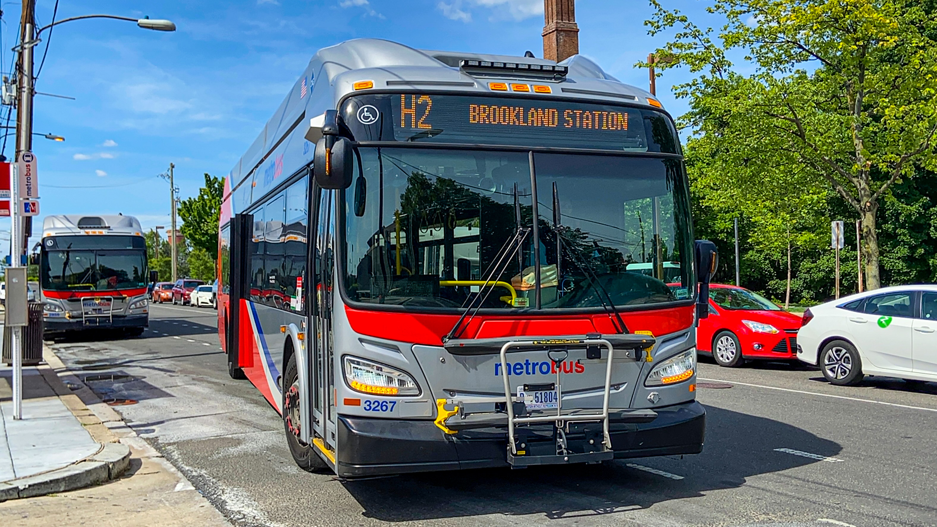 WMATA 2019 New Flyer XN40 3267 on Route H2 at Tenleytown station